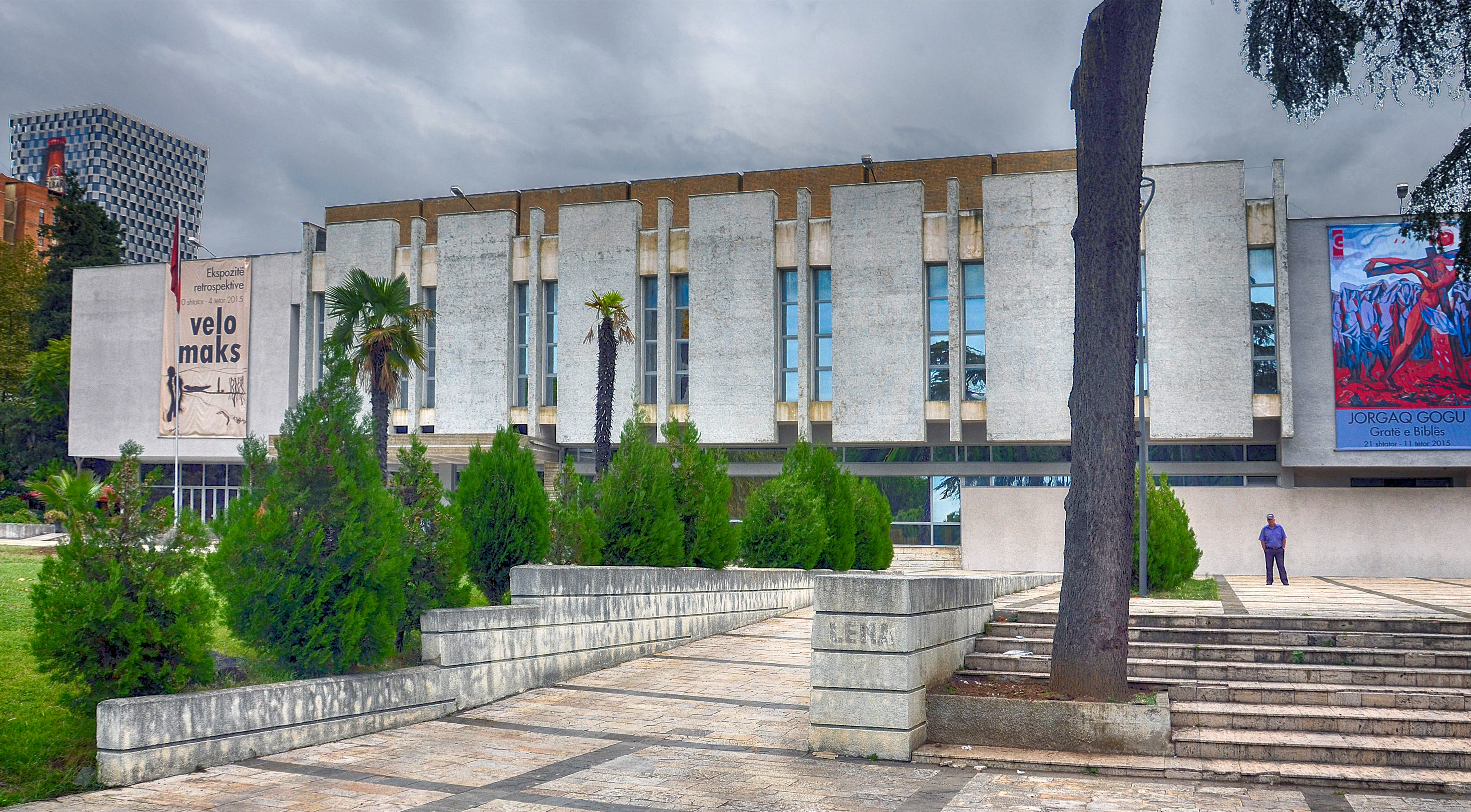 The building of the National Art Gallery in Tirana, Albania